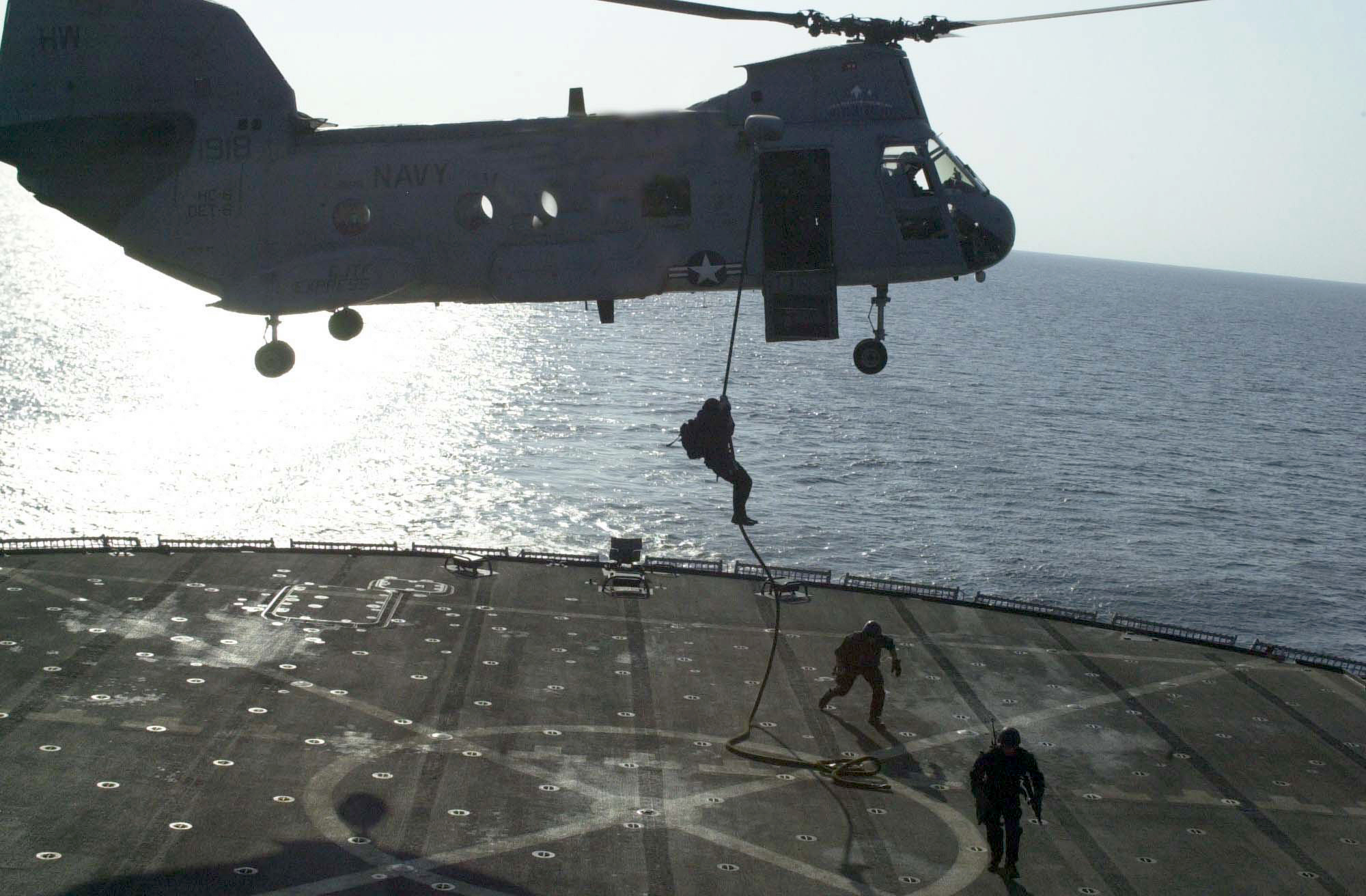 At sea aboard USS Mount Whitney (LCC/JCC 20) Jan. 17, 2003 -- A U.S. Navy SEAL (SEa, Air, and Land) fast-ropes from a CH-46D “Sea Knight” helicopter during a Maritime Interception Operation (MIO) training exercise. U.S. Navy SEALs are deployed throughout the world conducting missions in support of Operation Enduring Freedom. U.S. Marine Corps photo by Cpl. Andrew W. Miller. (RELEASED)